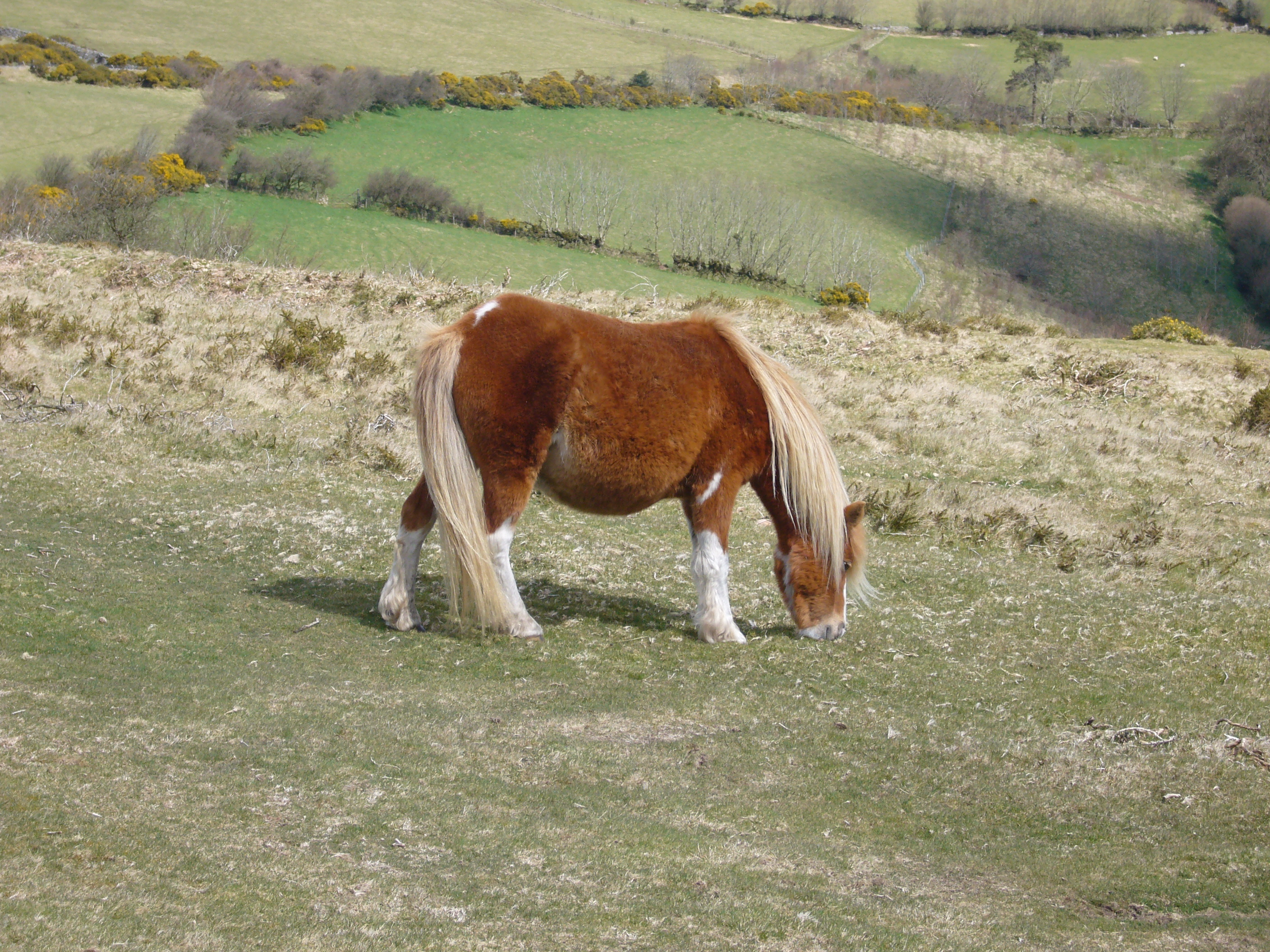 Dartmoor Hill pony on Hameldon on Dartmoor.